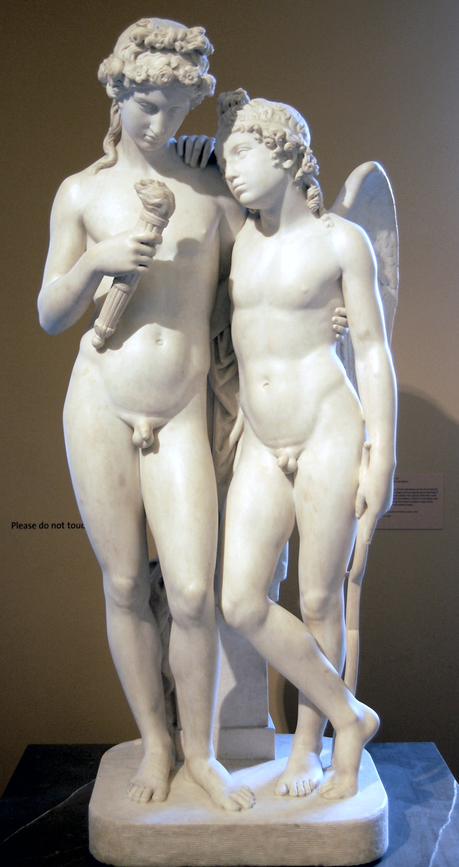 Marble statue Cupid Rekindling the Torch of Hymen by George Rennie. Sculpture Court, Victoria and Albert Museum, London.